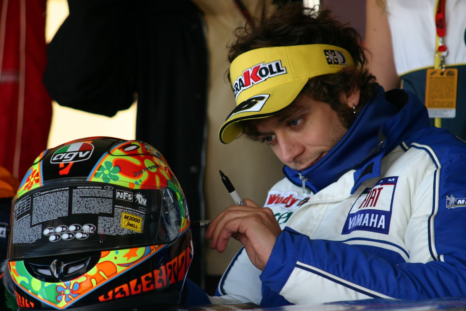 Valentino Rossi at the Australian MotoGP, Phillip Island, 12 October 2007